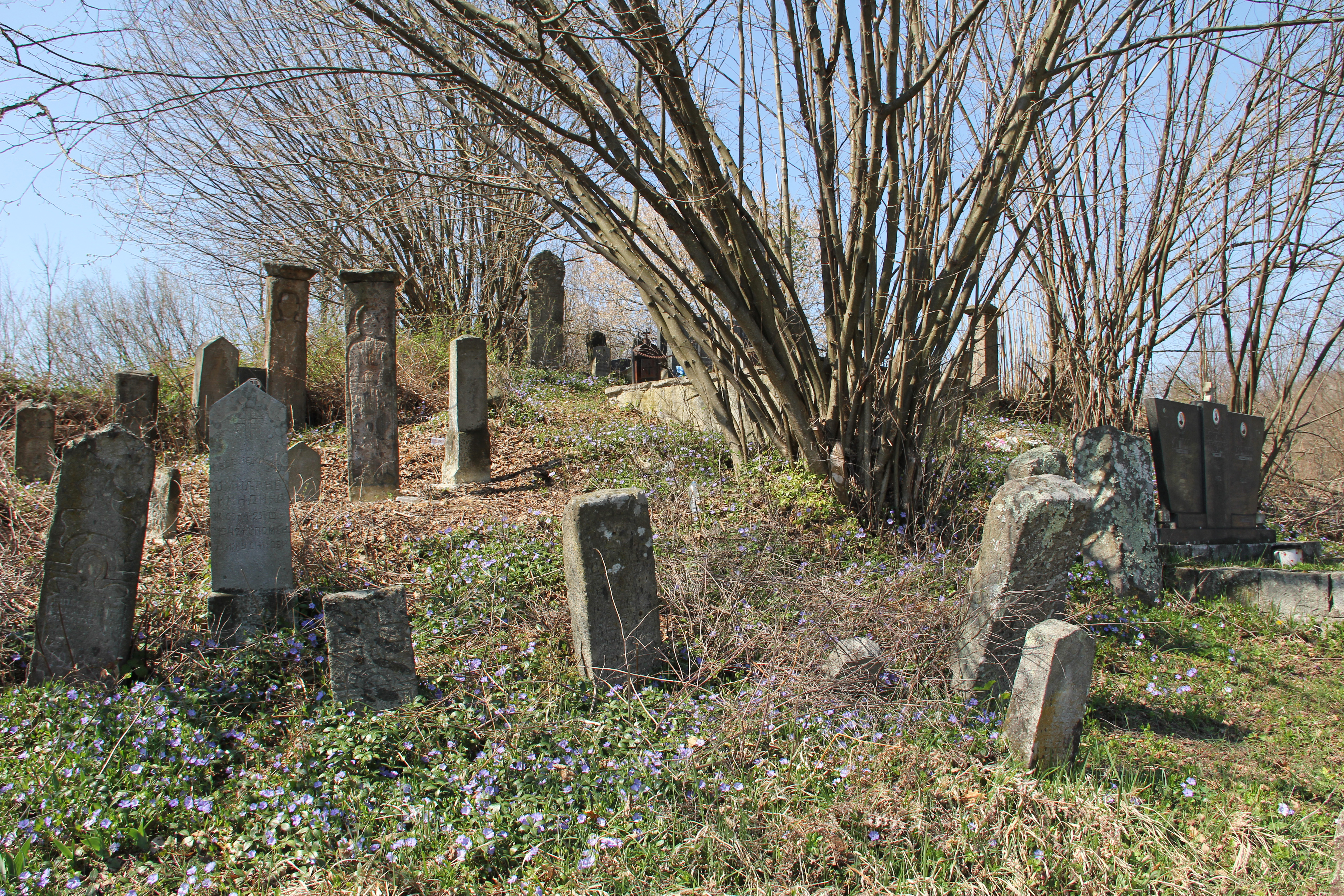 Old gravestones at the cemetery in the village of Reljinci (the municipality of Gornji Milanovac), Serbia.